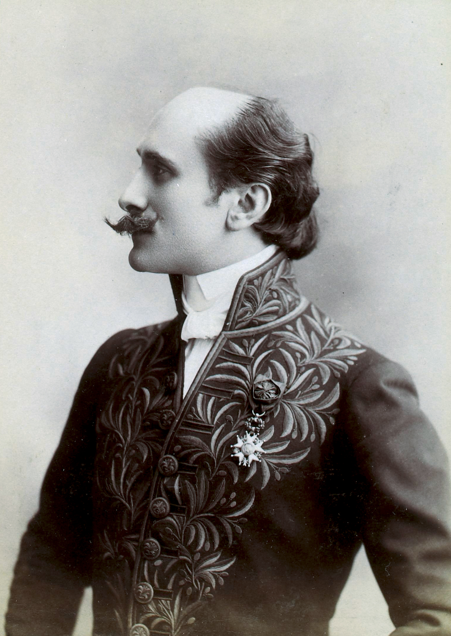 French playwright Edmond Rostand in the official uniform of the Académie française